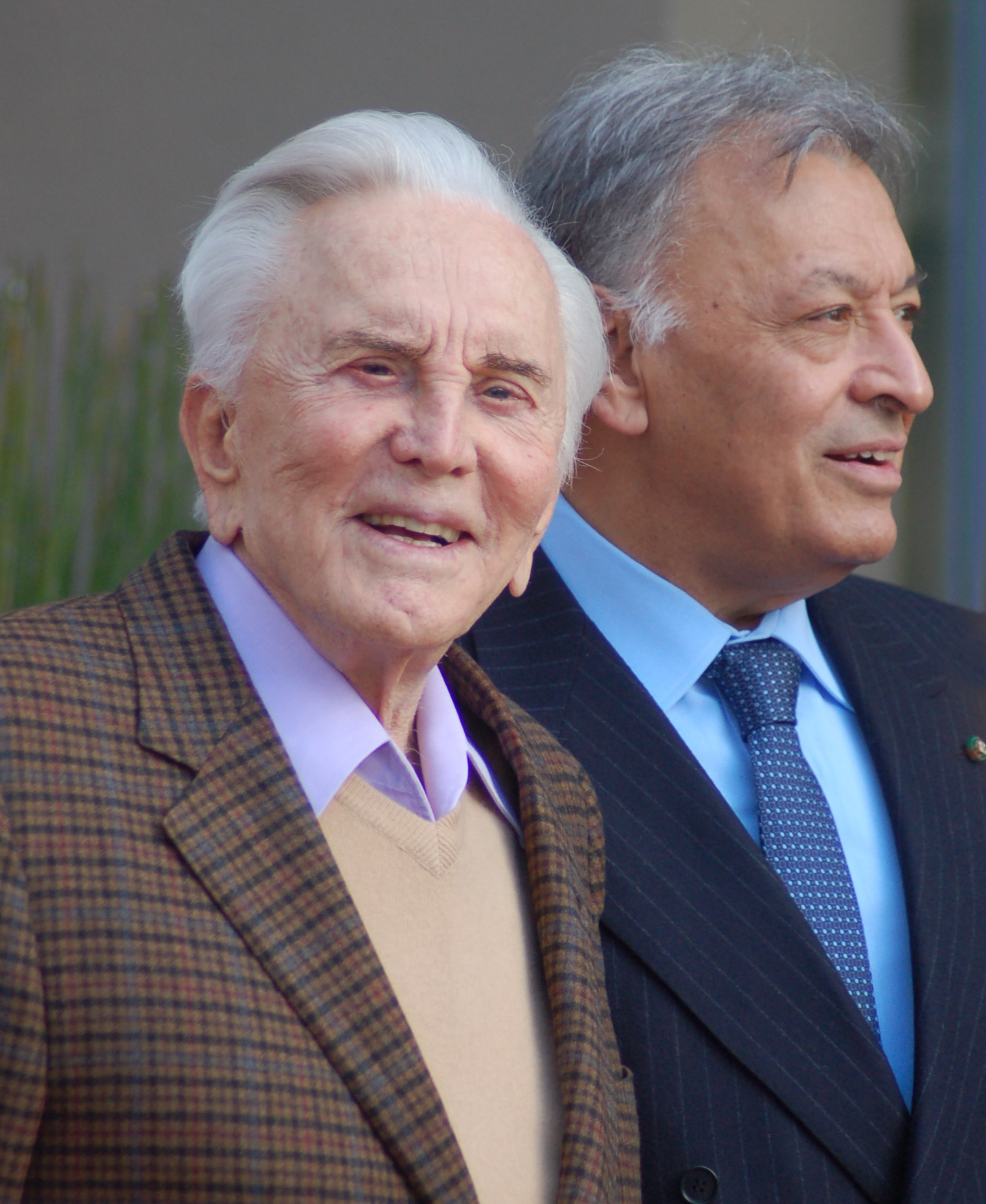 Kirk Douglas and Zubin Mehta at a ceremony for Mehta to receive a star on the Hollywood Walk of Fame.